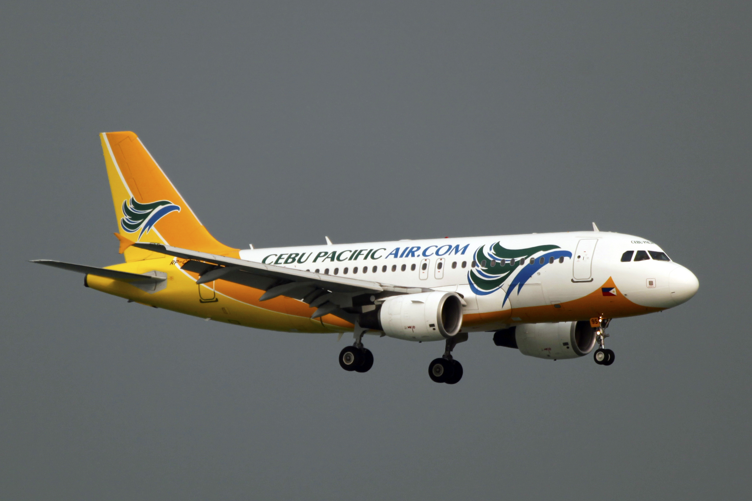 RP-C3195 | CEBU Pacific Air | Airbus A319-111 | Hong Kong Chek Lap Kok International Airport [HKG]